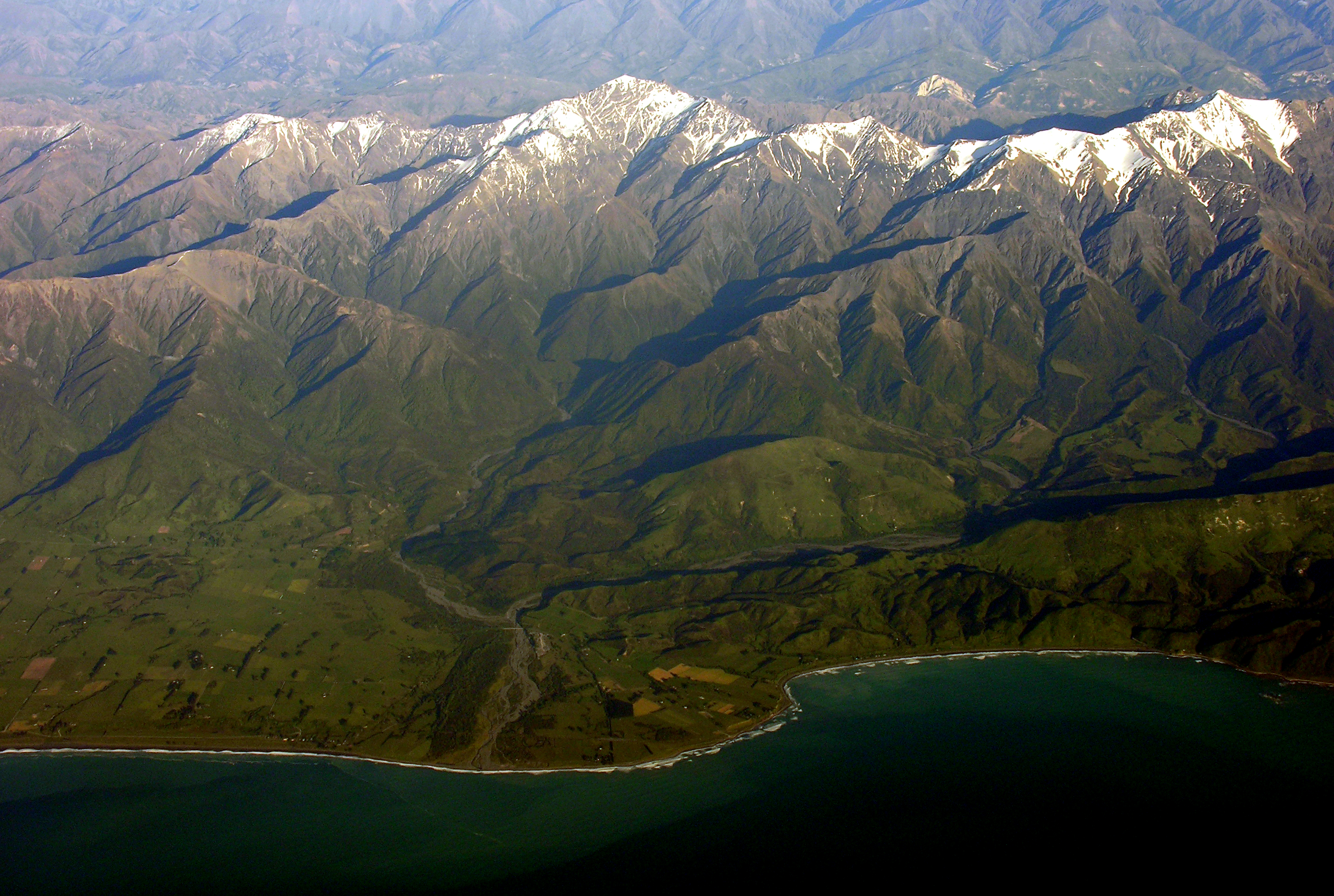 Hapuka River mouth, Canterbury, New Zealand. En route Wellington to Christchurch.